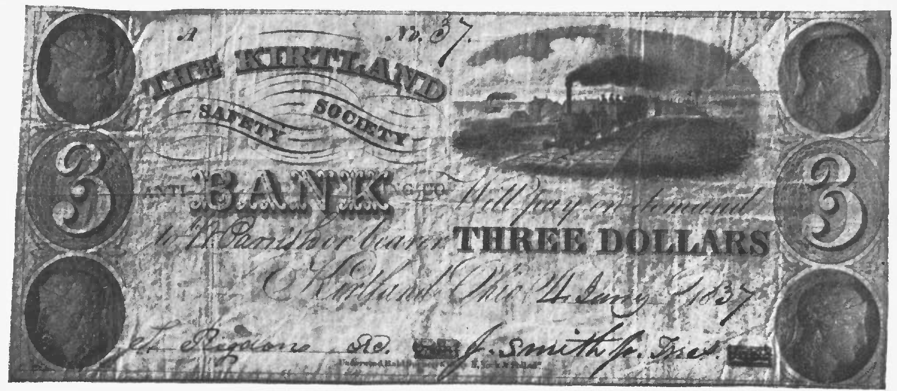 Kirtland Safety Society banknote.